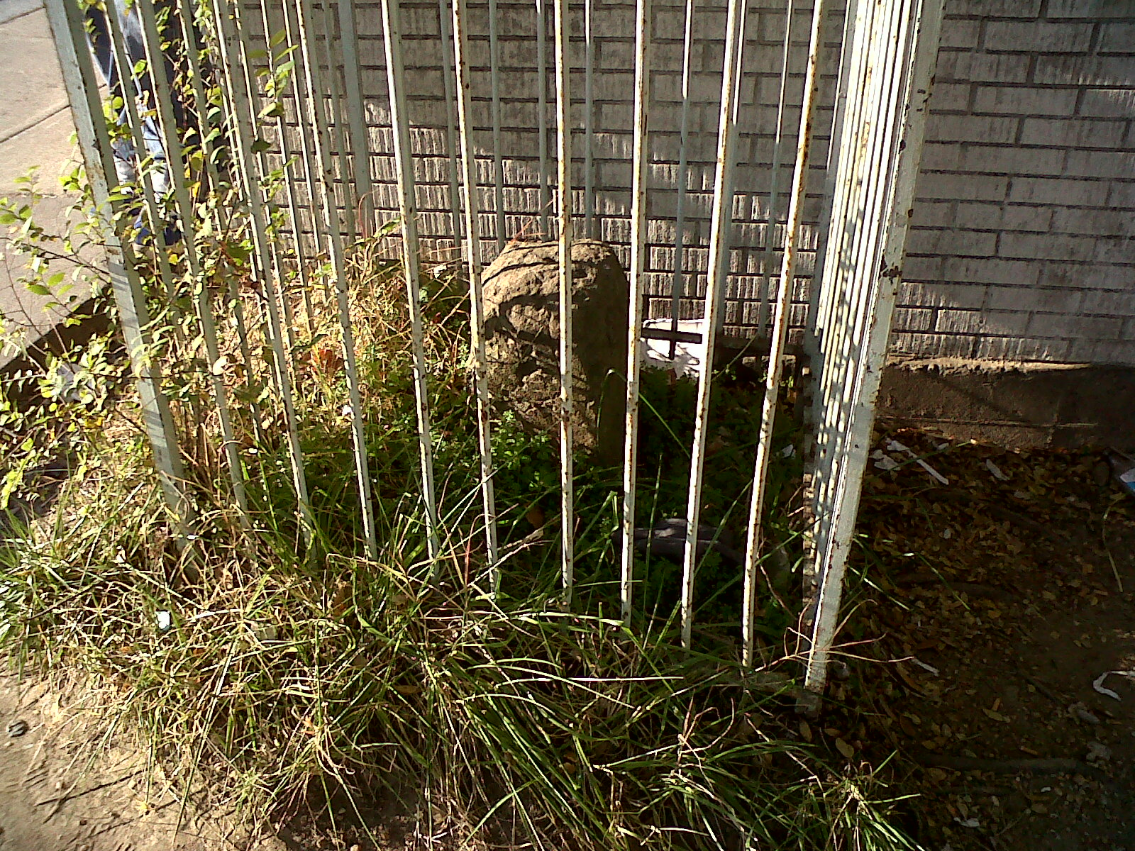 Southeast No. 7 Boundary Marker of the Original District of Columbia is located at 25 ft. SE of jct. of Southern Ave. and Indian Head Rd. Washington, DC. It is listed on the National Register of Historic Places.